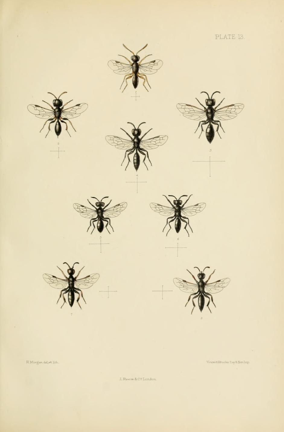 Edward Saunders , 1896 The Hymenoptera Aculeata of the British Islands : a descriptive account of the families, genera, and species indigenous to Great Britain and Ireland, with notes as to habits, localities, habitats London :Reeve,1896. Plate 13 text 1 Spilomena troglodytes V d Lind male = Spilomena troglodytes (Vander Linden,1829) 2 Stigmus solskyi Mor female = Stigmus solskyi Morawitz, 1864 3 Pemphredon lugubris Latr female = Pemphredon lugubris (Fabricius,1793) 4 Pemphredon shuckardi Mor male Pemphredon inornata Say,1824 5 Pemphredon morio Vander Linden 1829 male 6 Diodontus tristis V d Lind female = Diodontus tristis (Vander Linden,1829) 7 Passaloecus corniger Shuk female = Passaloecus corniger Shuckard,1837 8 Passaloecus monilicornis Dahlb female = Passaloecus monilicornis Dahlbom,1842